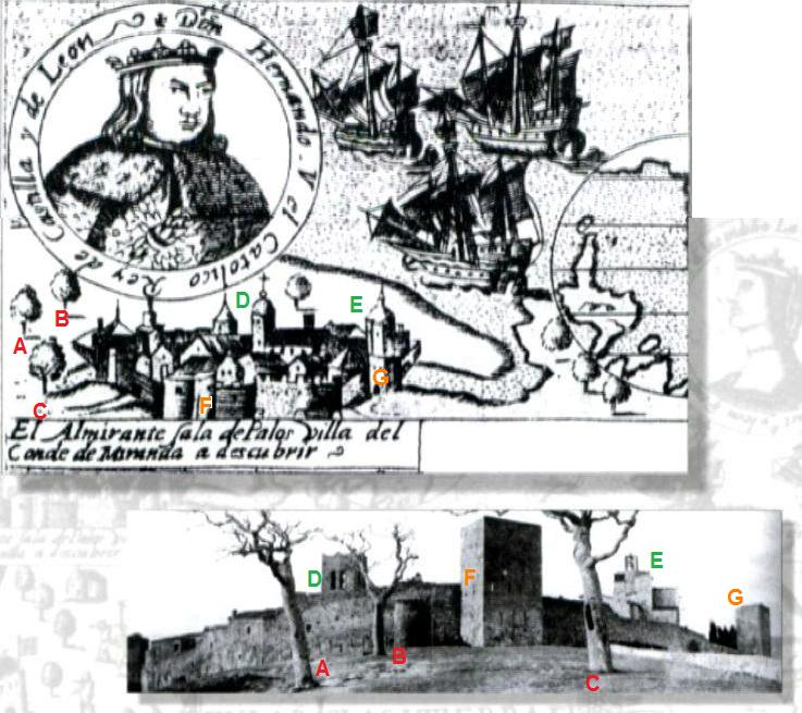 Collage of two pictures from the XVI centuries